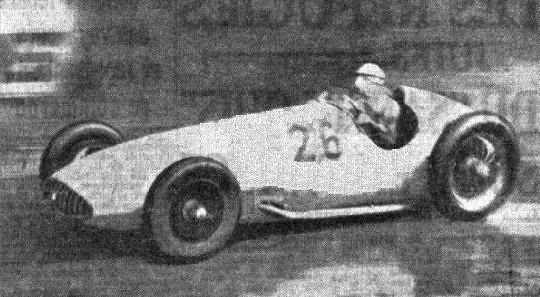 Richard Seaman in Belgium 1939.